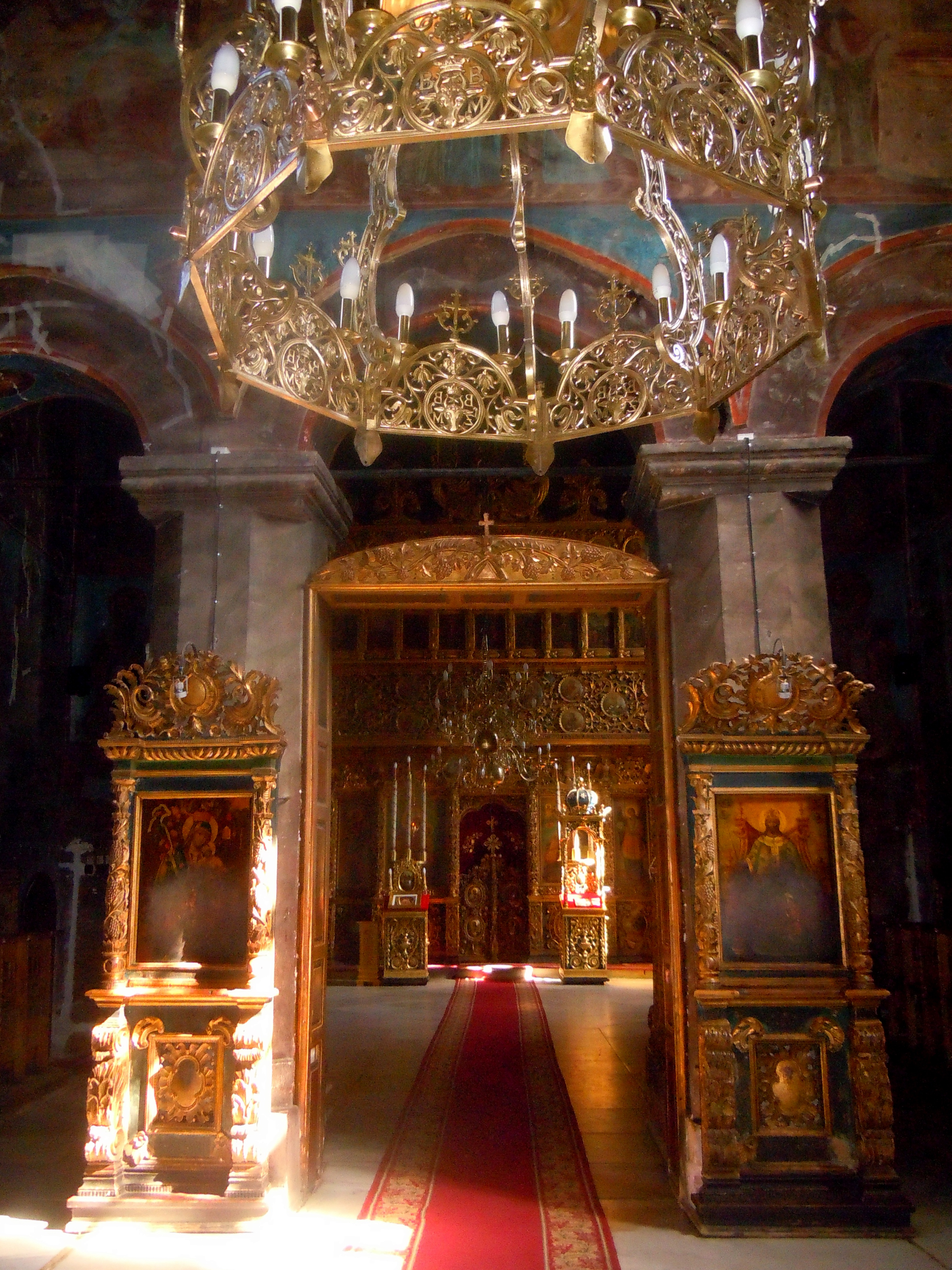 Golia Monastery Church , inside , Iaşi, RomaniaRomână: Biserica Mănăstirii Golia , interior , Iaşi, România